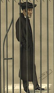 Caricature of Reverend Arthur Tooth. Caption read "The Christian Martyr".